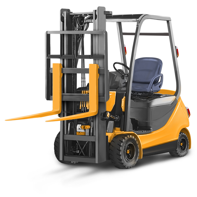 An orange photo-realistic forklift illustration with a dark blue seat on a white background. The forklift truck has a total of four safety lights for maximum visibility during night time conditions.